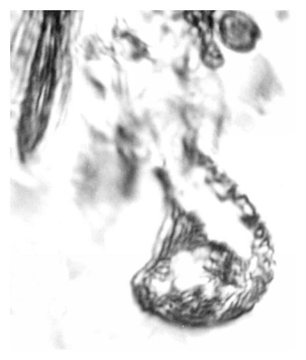 Stages of Paleotrypanosoma burmanicus in a salivary secretion protruding from the proboscis of the Early Cretaceous biting midge Leptoconops nosopheris